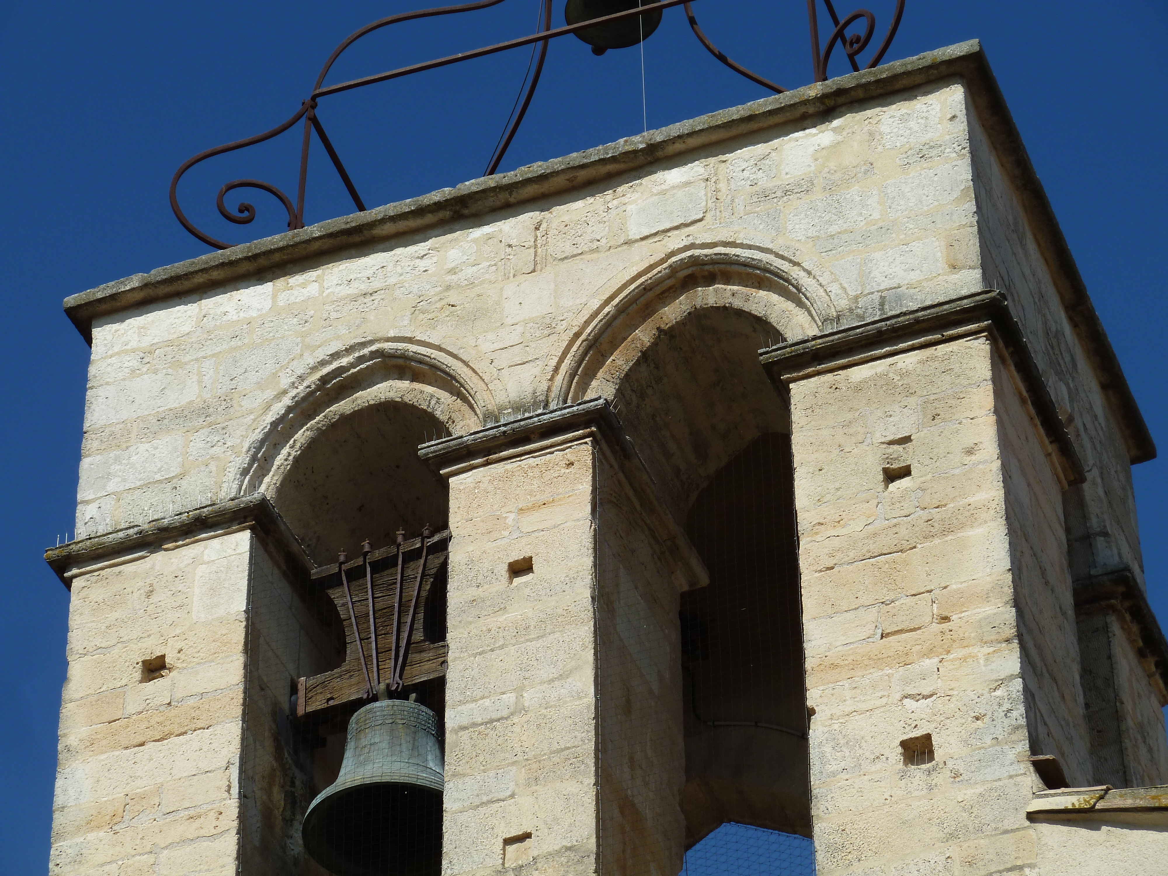 Church of Saint-Jean-Baptiste in Castelnau-le-Lez (vicinity of Montpellier, France). West side. Belltower (detail).